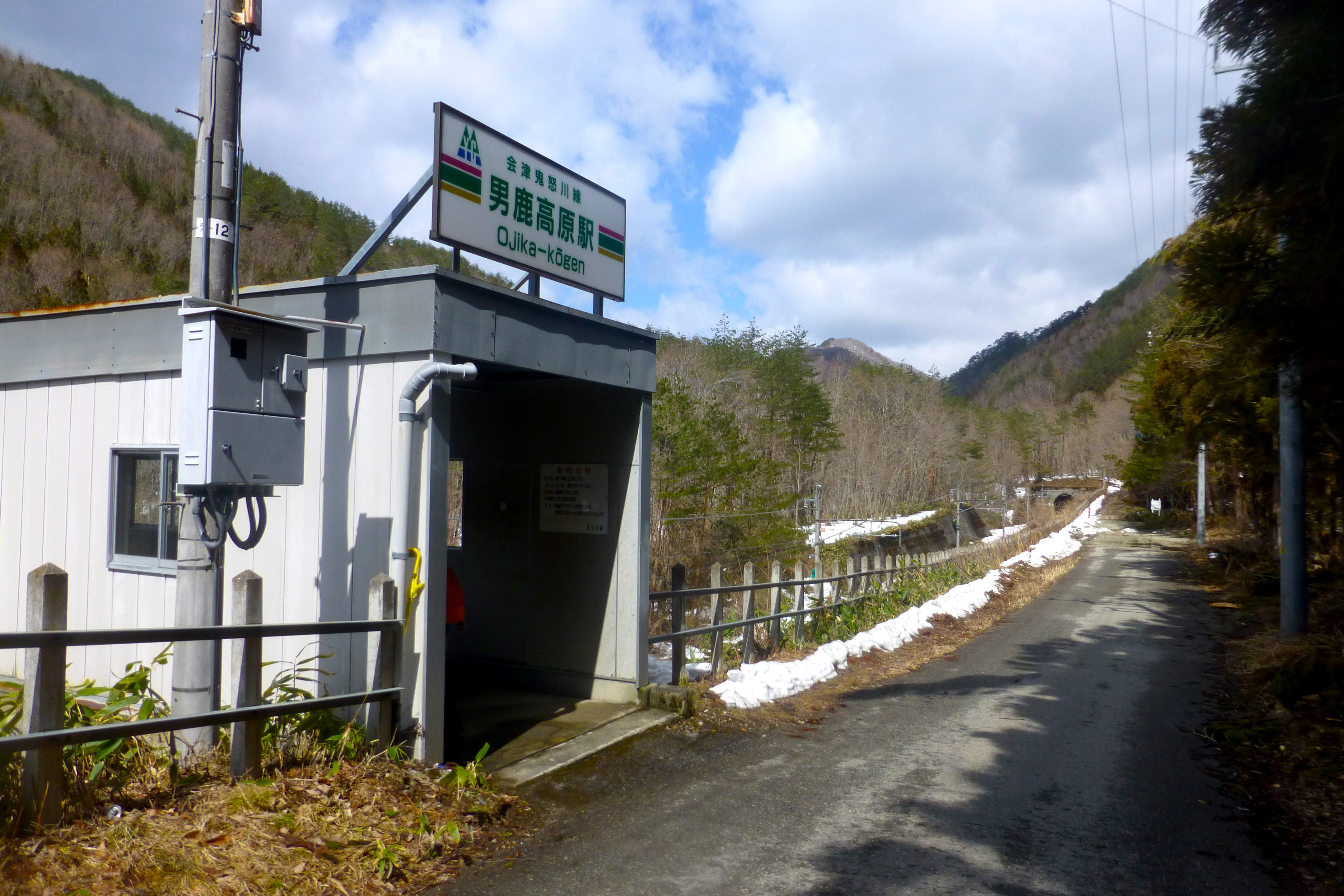 Ojika-Kōgen Station (男鹿高原駅 Ojika-Kōgen-eki) is a train station in Nikkō, Tochigi Prefecture, Japan. This is the front of the station, stairs lead down to the small platform. There is no ticket gate.